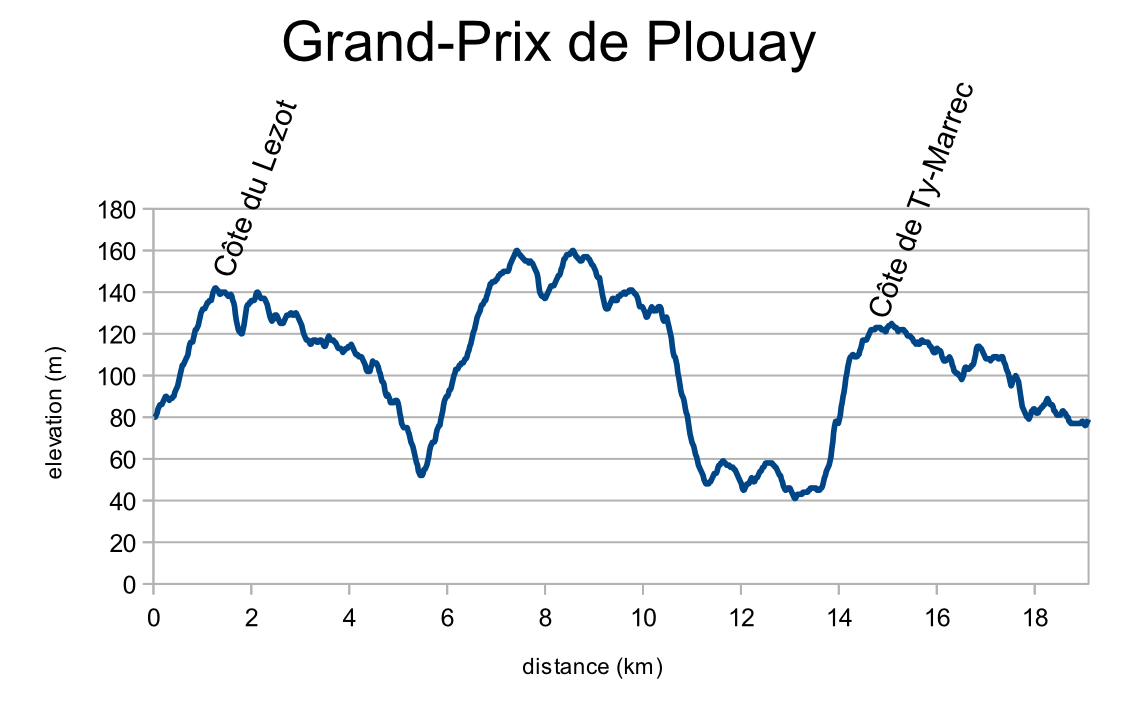 Profile of the circuit 2011 of the GP Plouay